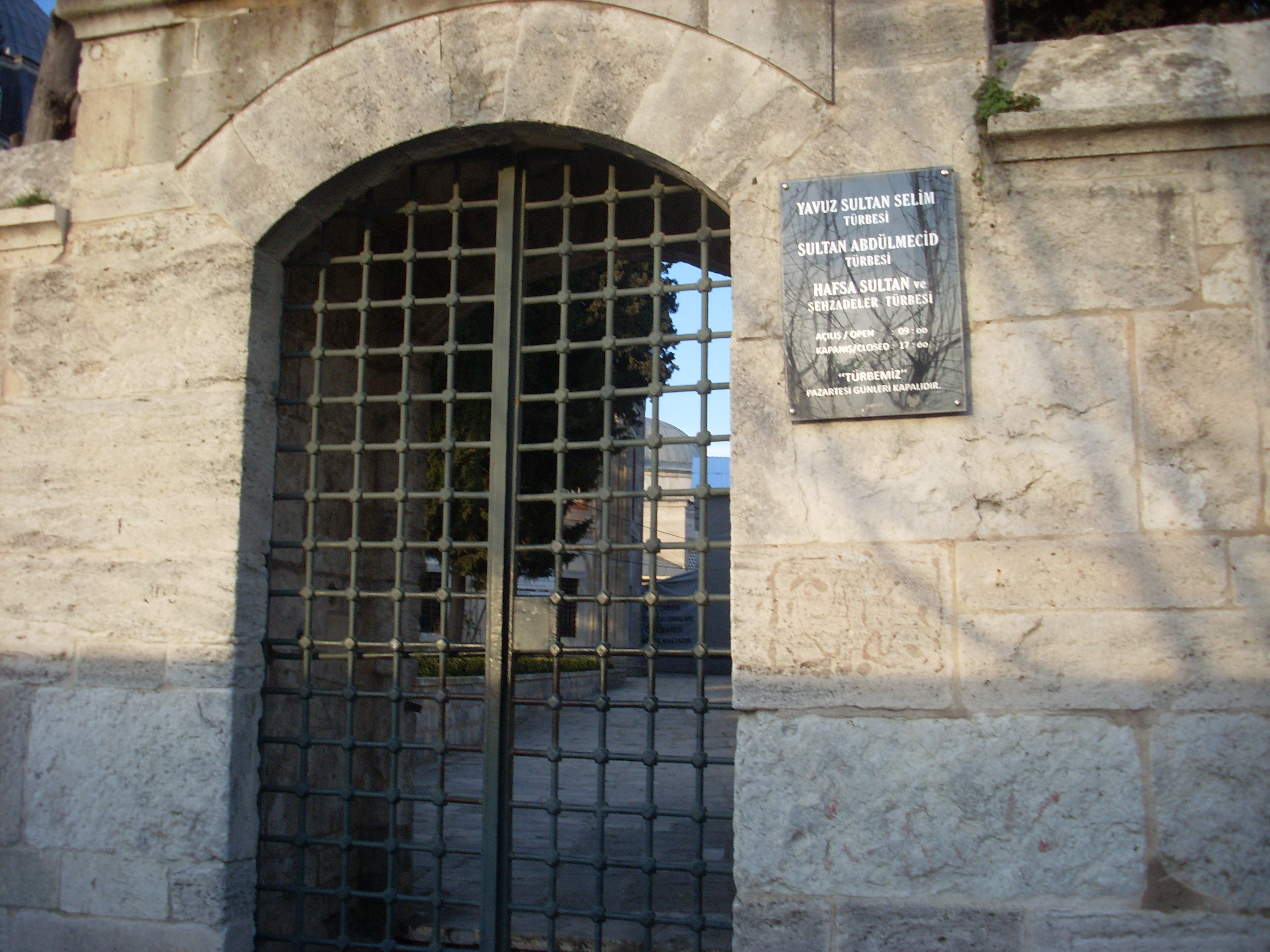 İstanbul - Yavuz Selim Mosque - Mart 2013 - r3